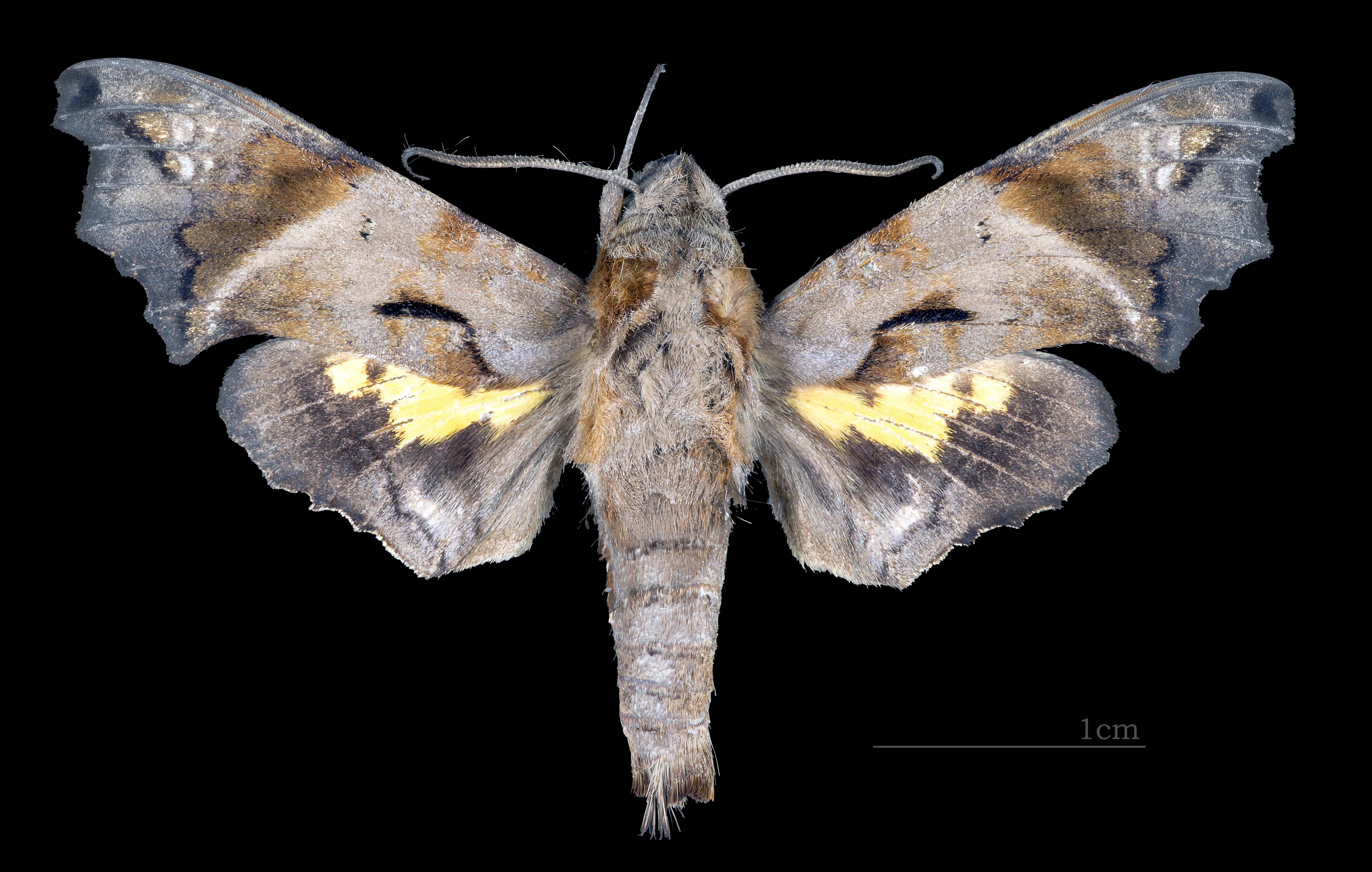 Nyceryx ericea - Dorsal side Collection of the Mathematician Laurent Schwartz